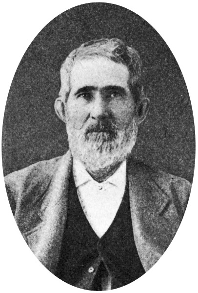 George W. Jones, Texas Lieutenant Governor and Congressman.